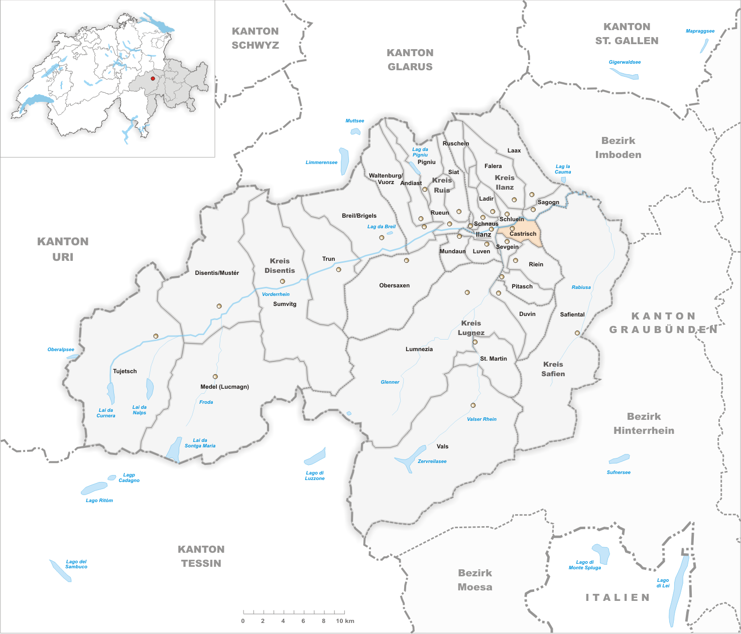 Municipality Castrisch